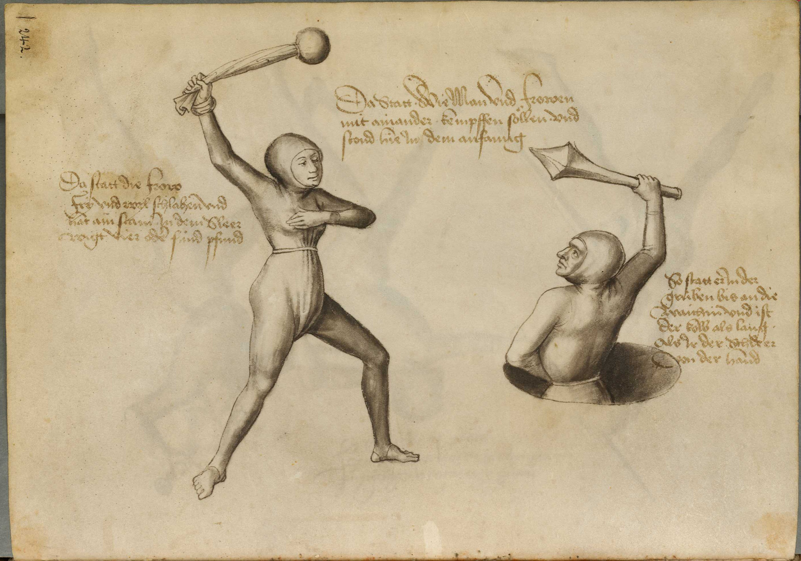 This is a scan of the historical Fechtbuch ('fencing book') by German fencing master Hans Talhoffer.